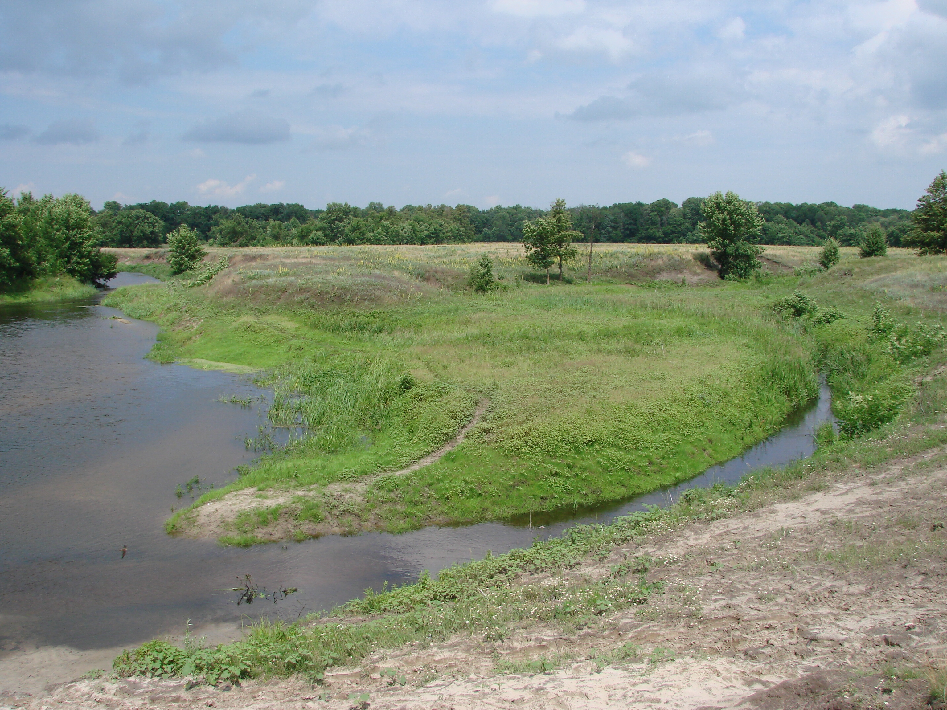 Ukraine. Sumy region. Khukhra village. Vorskla river.